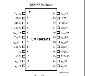 LM 4663